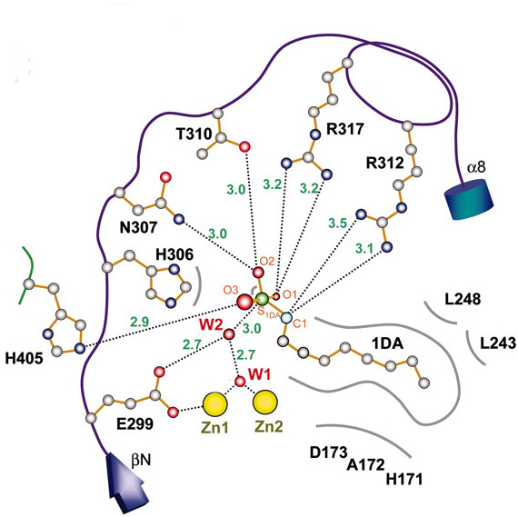 active site of the sulfatase SdsA1, the numbers in green are distances (Angstrom) between the corresponding residues